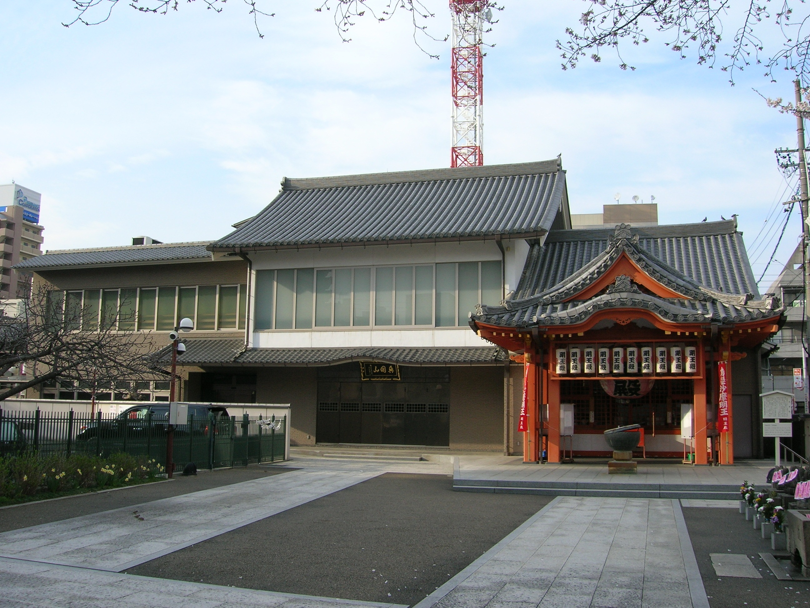 Daikōin. Loc: Ōsu, Naka-ku, Nagoya city, Aichi Prefecture, Japan. 大光院。 撮影場所 愛知県名古屋市中区